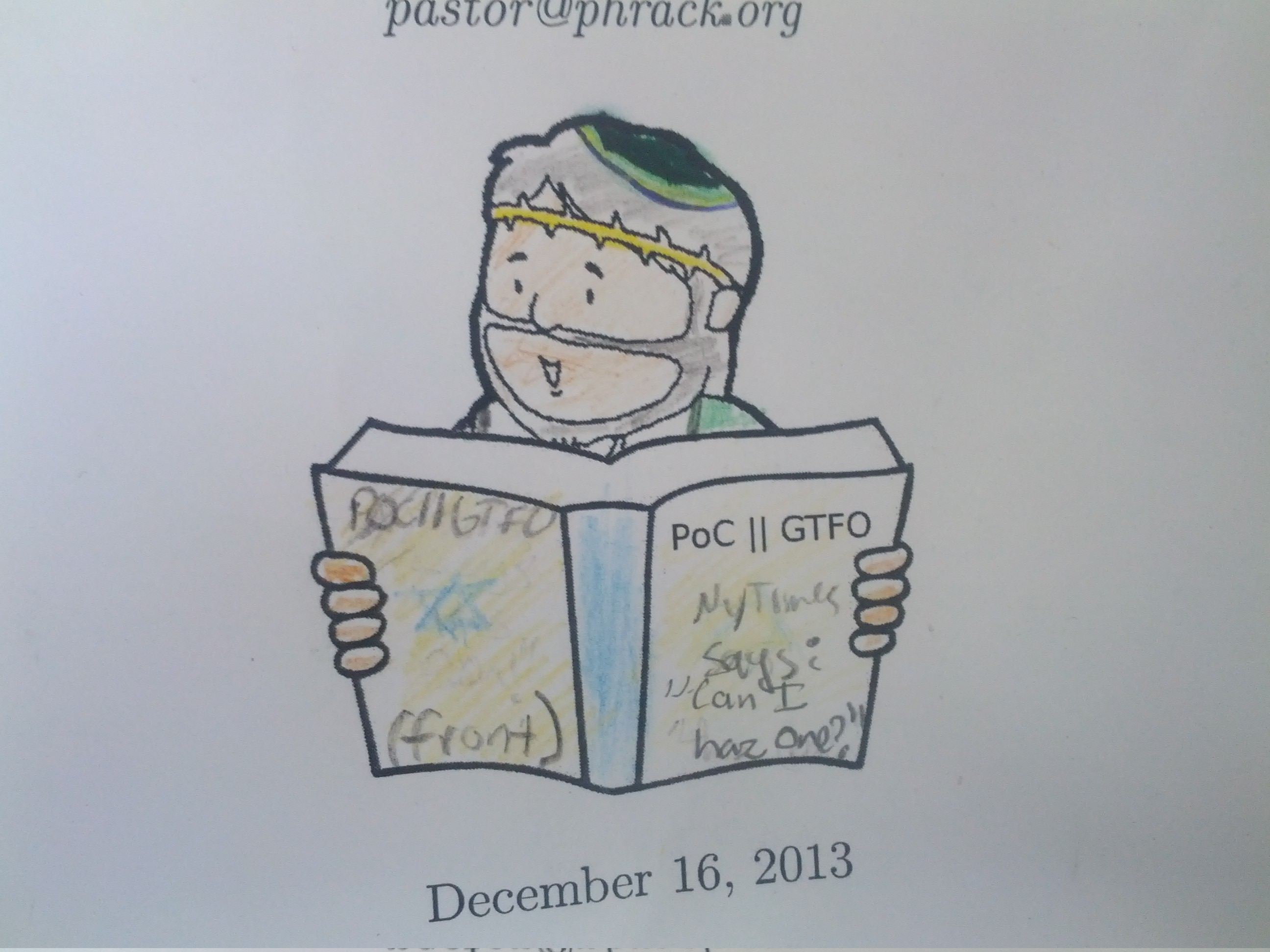 PoC||GTFO Proof of Concept OR Get The Fuck Off: Rabbi Manul Laphroaig.